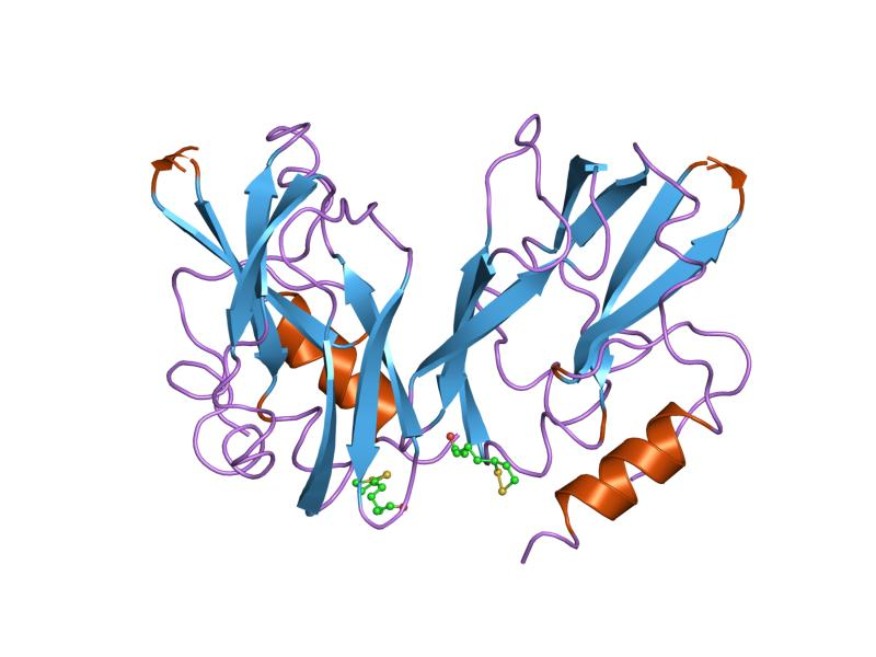 Cartoon representation of the molecular structure of protein registered with 1hpc code.